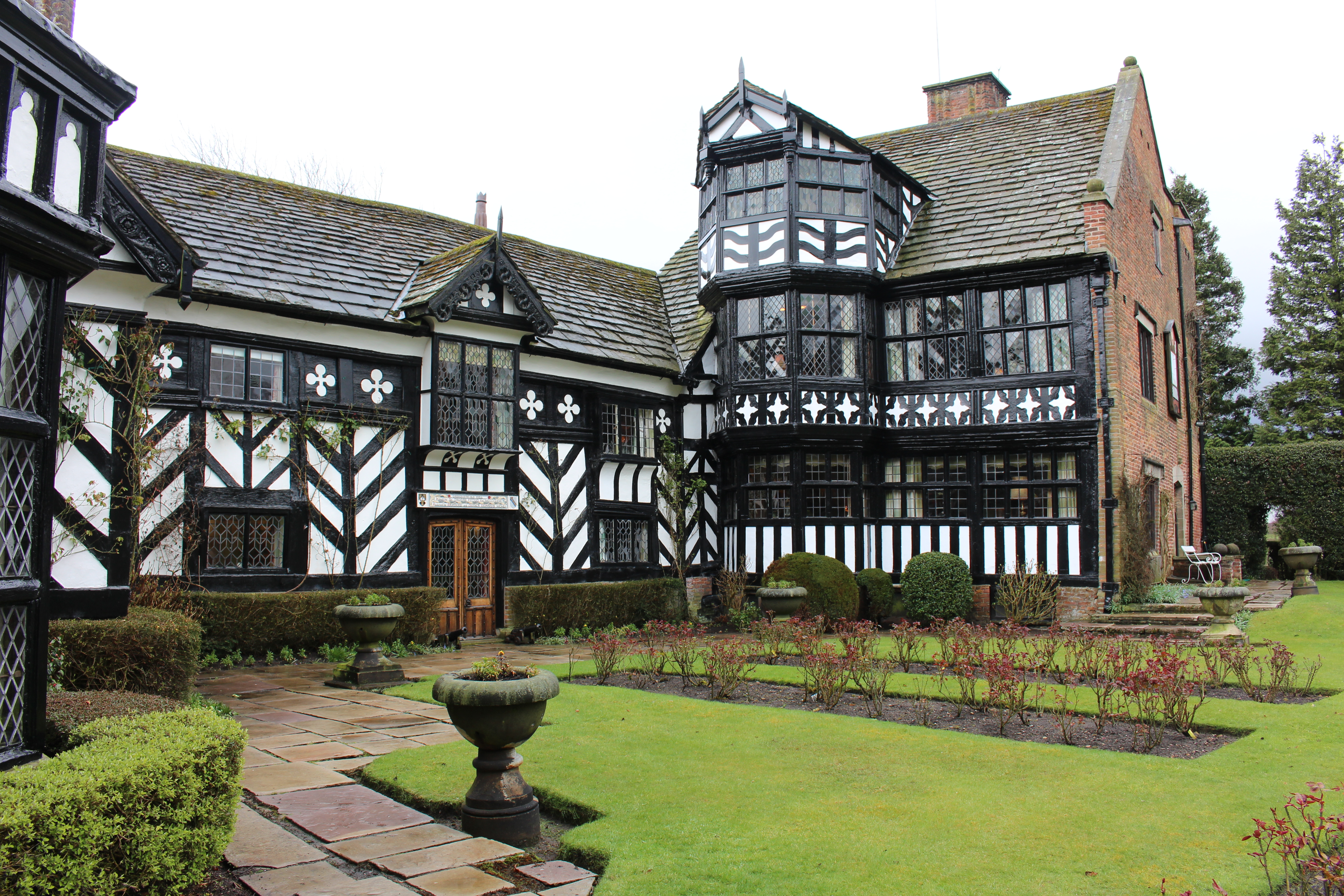 Gawsworth Hall (West Front).